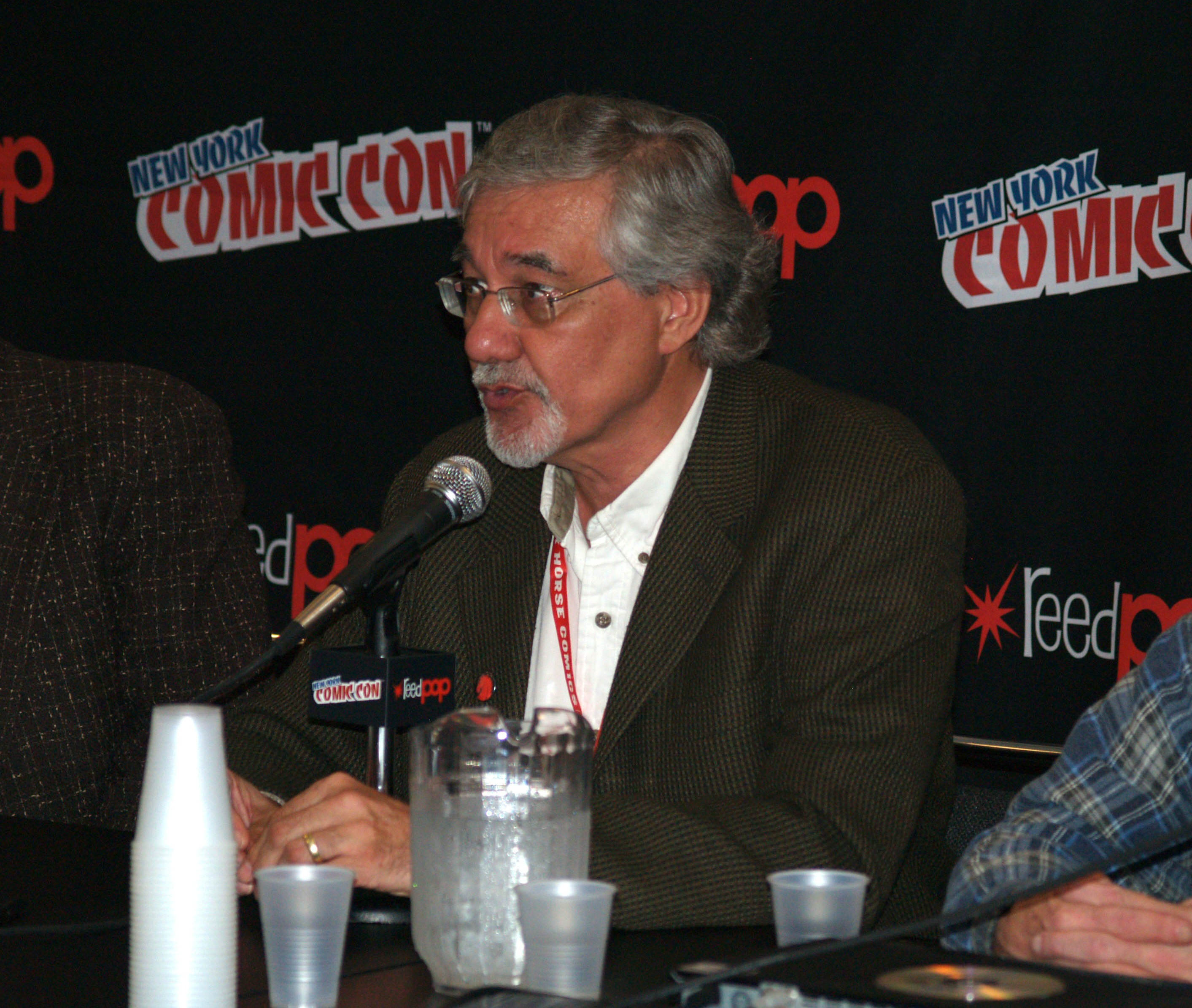 Cartoonist and publisher Denis Kitchen at a discussion panel on Harvey Kurtzman's Jungle Book on Saturday, October 11, 2014 at the Jacob K. Javits Convention Center in Manhattan, Day 3 of the 2014 New York Comic Con. This photo was created by Luigi Novi. It is not in the public domain, and use of this file outside of the licensing terms is a copyright violation.